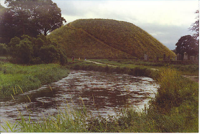 The Bass of Inverurie. This is a motte, a Norman castle mound. There would once have been a wooden stockade around the top. The river flowing past is the Urie.